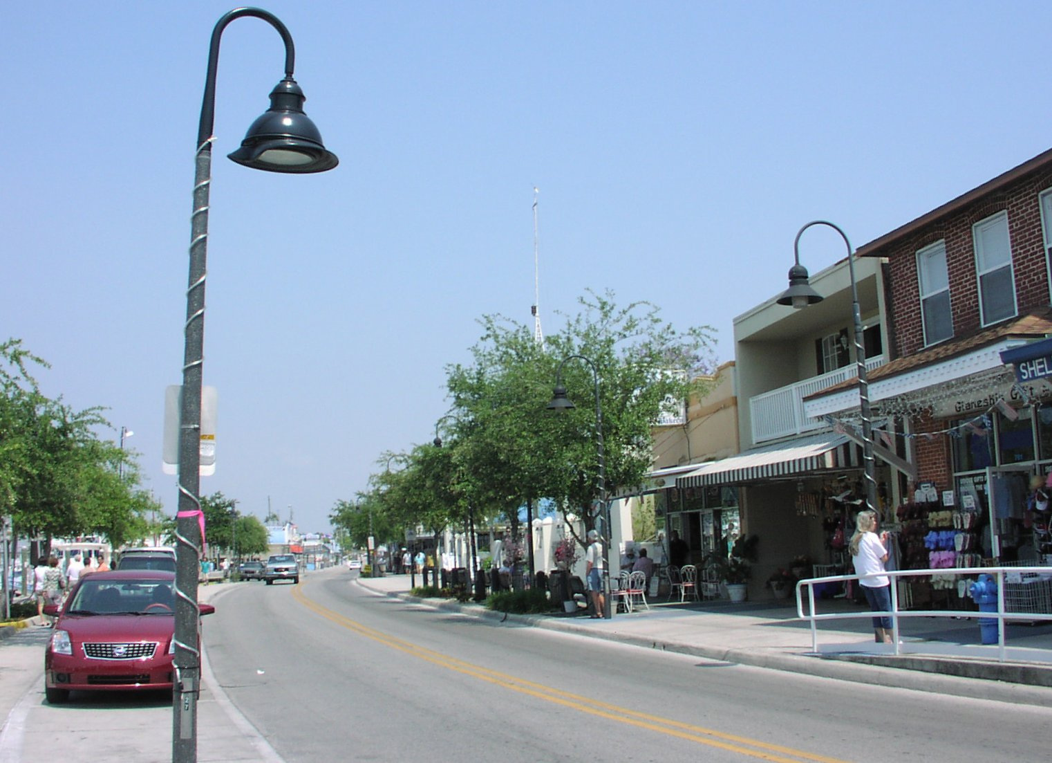 Dodecanese Avenue in Tarpon Springs, looking east.